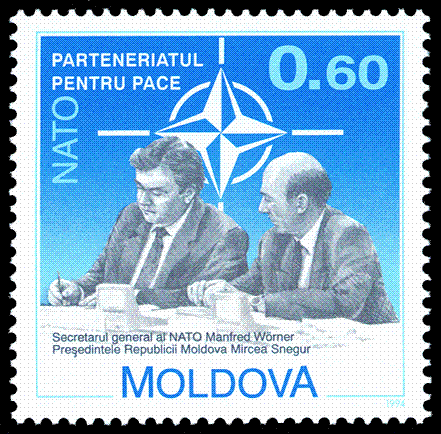 Stamp of Moldova